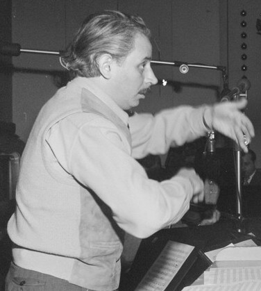 Gottlieb, William P., 1917-, photographer. [Portrait of Lena Horne and Lennie Hayton, New York, N.Y., between 1946 and 1948] 1 negative : b&w ; 2 1/4 x 2 1/4 in. Notes: Gottlieb Collection Assignment No. 143 Purchase William P. Gottlieb Forms part of: William P. Gottlieb Collection (Library of Congress). Subjects: Horne, Lena Hayton, Lennie, 1908-1971 Women jazz musicians--1940-1950. Jazz singers--1940-1950. Conductors (Music)--1940-1950. Format: Portrait photographs--1940-1950. Group portraits--1940-1950. Film negatives--1940-1950. Rights Info: Mr. Gottlieb has dedicated these works to the public domain, but rights of privacy and publicity may apply. Repository: (negative) Library of Congress, Prints & Photographs Division, Washington D.C. 20540 USA, Part Of: William P. Gottlieb Collection (DLC) 99-401005 General information about the Gottlieb Collection is available at Persistent URL: Call Number: LC-GLB23- 1245 This work is from the William P. Gottlieb collection at the Library of Congress. Rights and restrictions.In accordance with the wishes of William Gottlieb, the photographs in this collection entered into the public domain on February 16, 2010.